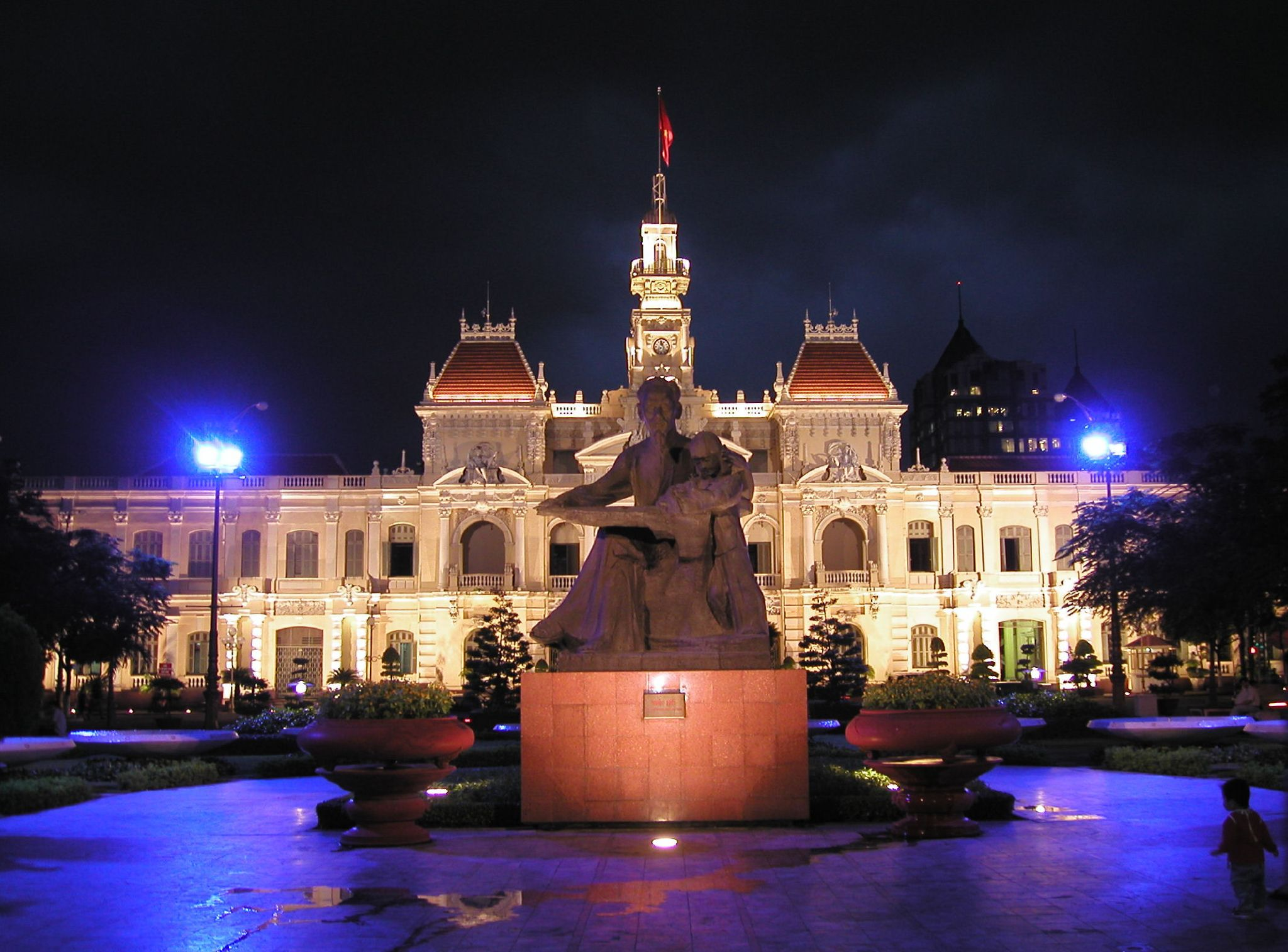 One of Saigon's more ornate facades that dates back to the French colonial era. The statue is of Ho Chi Minh reading a book to a child sitting in his lap